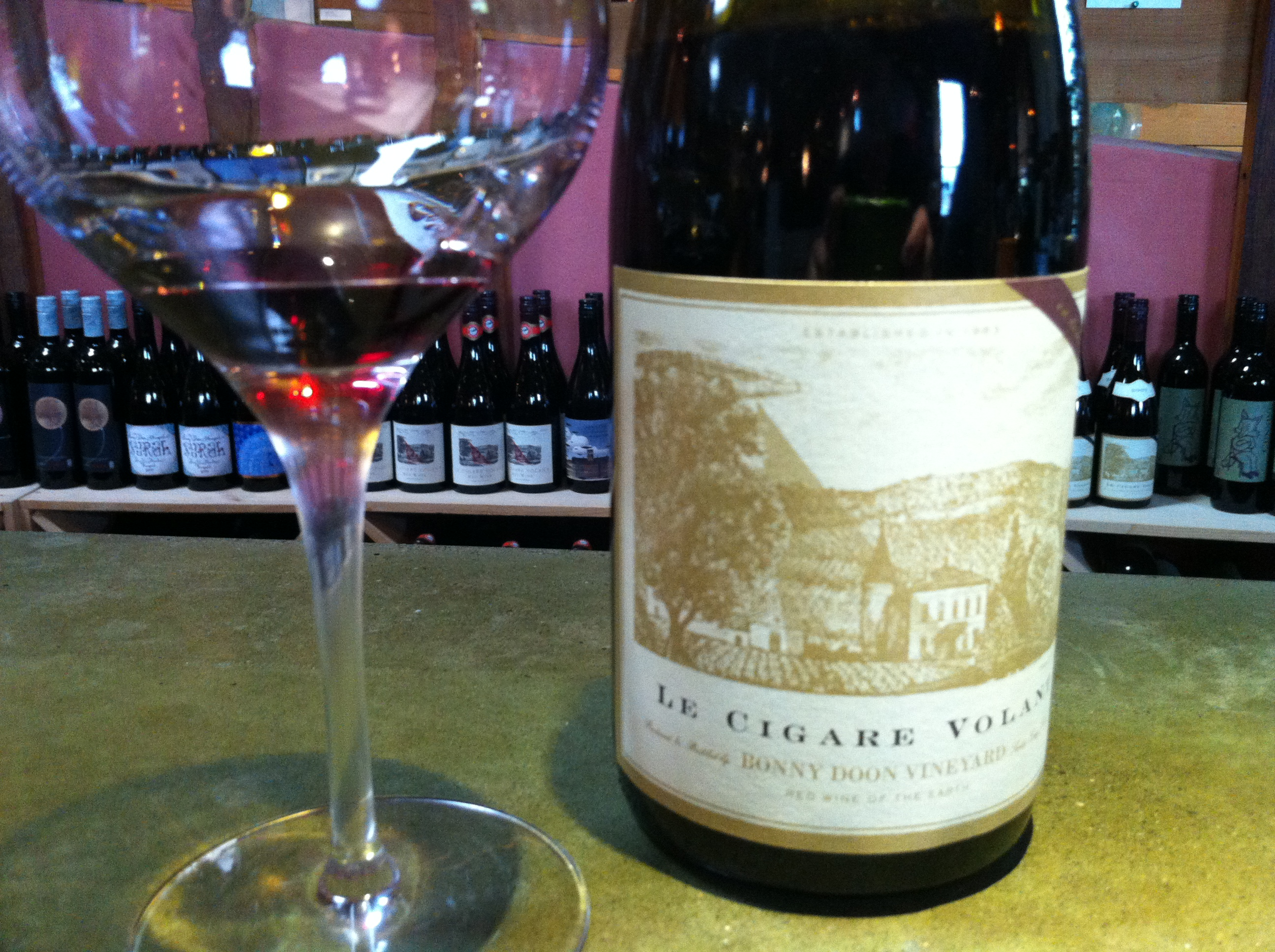 Flagship wine from the California producer Bonny Doon